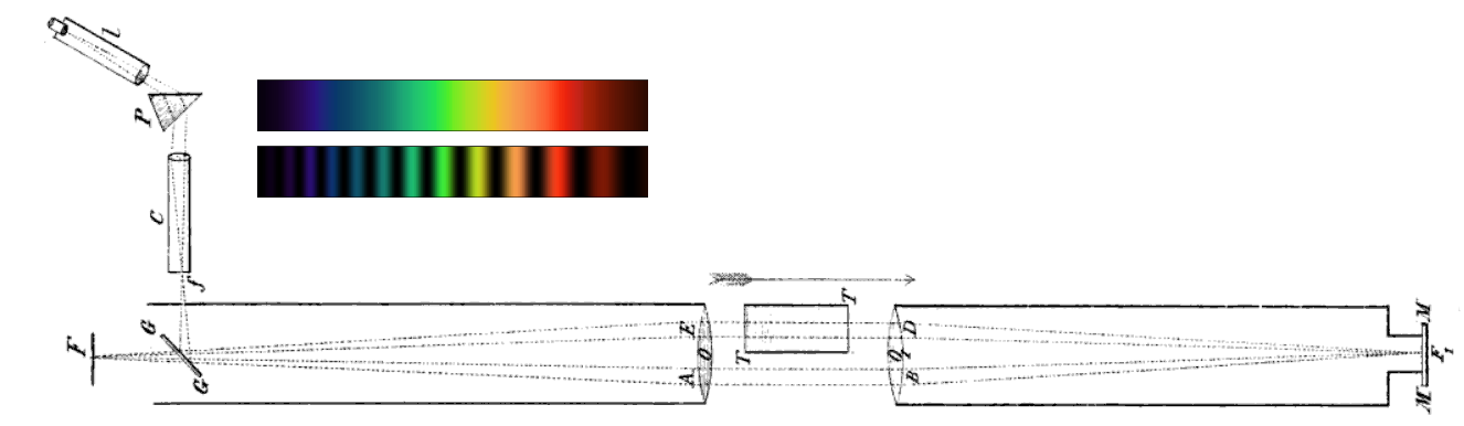 An indirect confirmation of Fresnel's dragging coefficient was provided by Martin Hoek (1868). In the particular version of the experiment shown here, Hoek used a prism P to disperse light from a slit into a spectrum which passed through a collimator C before entering the apparatus. With the apparatus oriented parallel to the hypothetical aether wind, Hoek expected the light in one circuit to be retarded 7/600 mm with respect to the other. Where this retardation represented an integral number of wavelengths, he expected to see constructive interference; where this retardation represented a half-integral number of wavelengths, he expected to see destructive interference. In the absence of dragging, his expectation was for the observed spectrum to be continuous with the apparatus oriented transversely to the aether wind, and to be banded with the apparatus oriented parallel to the aether wind. His actual experimental results were completely negative.